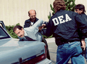 Trafficker bust